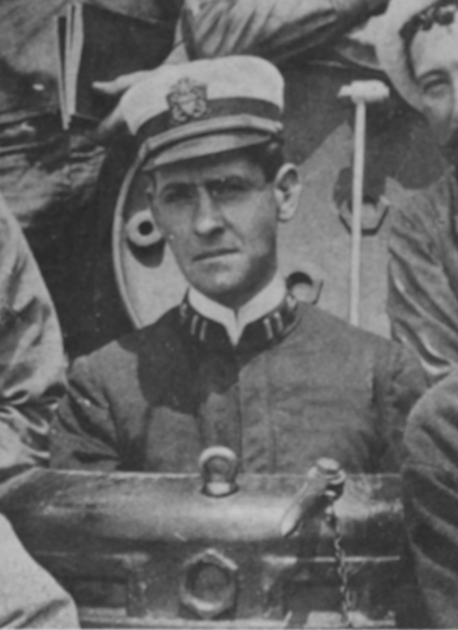 Harry H. Caldwell, in command of USS Holland (SS-1)